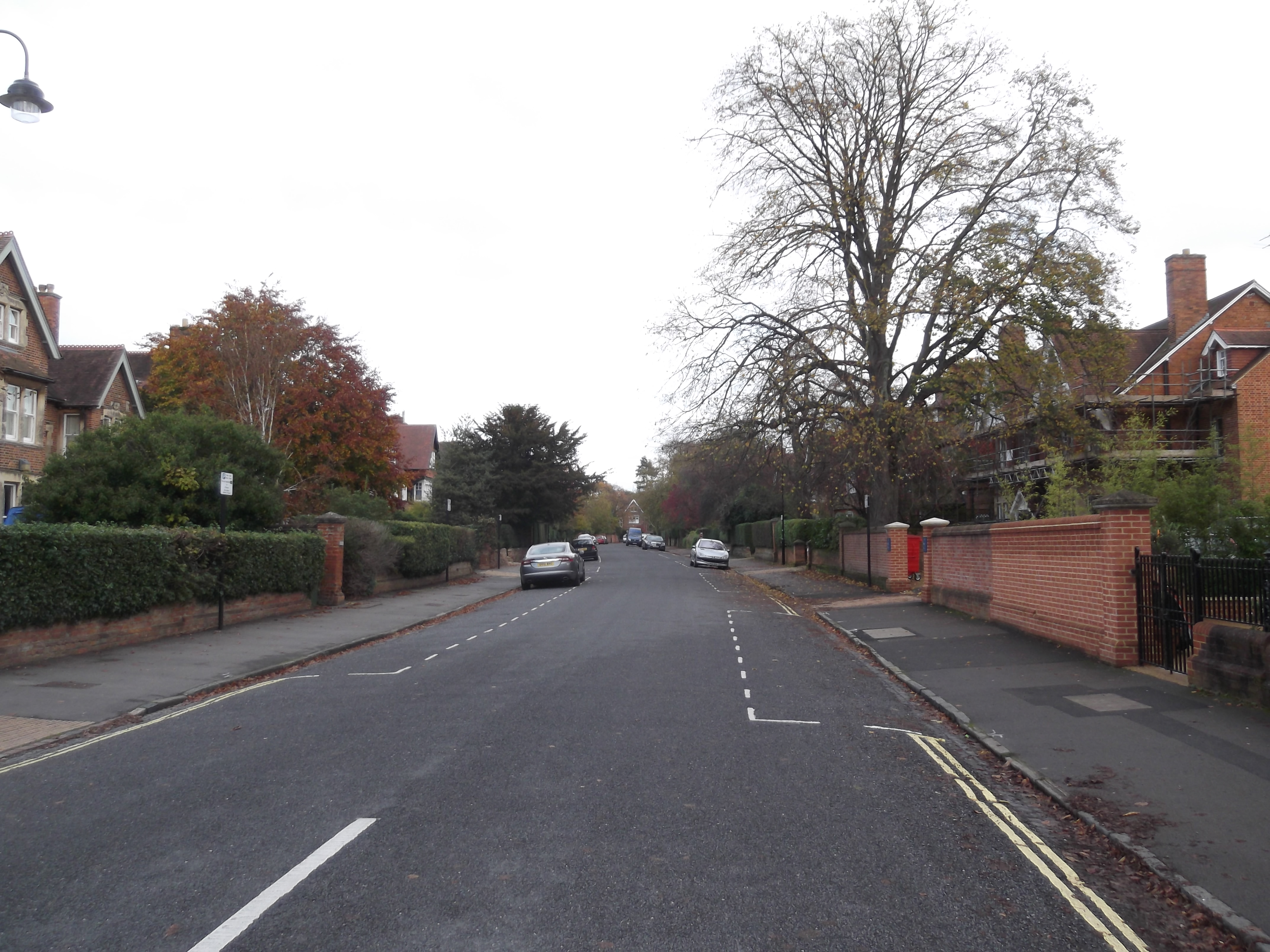 Street in north Oxford, England.